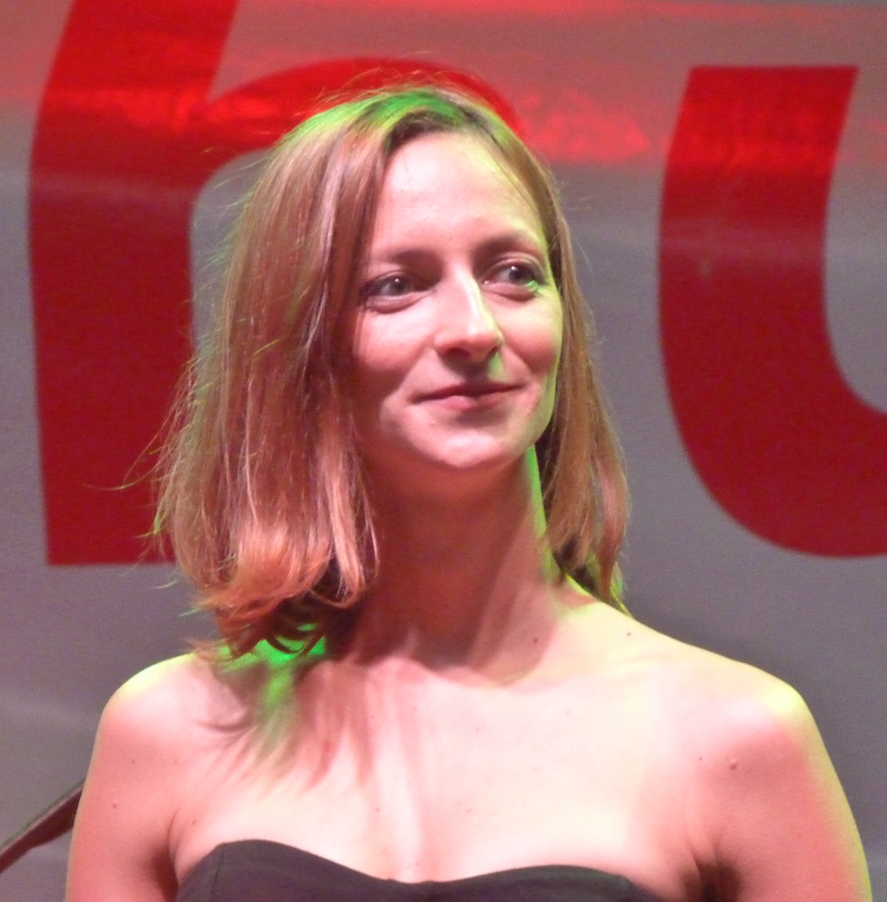 Szalóki Ágnes